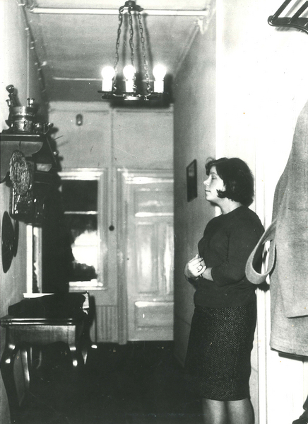 The alleged poltergeist victim Annemarie Schaberl at Rosenheim.